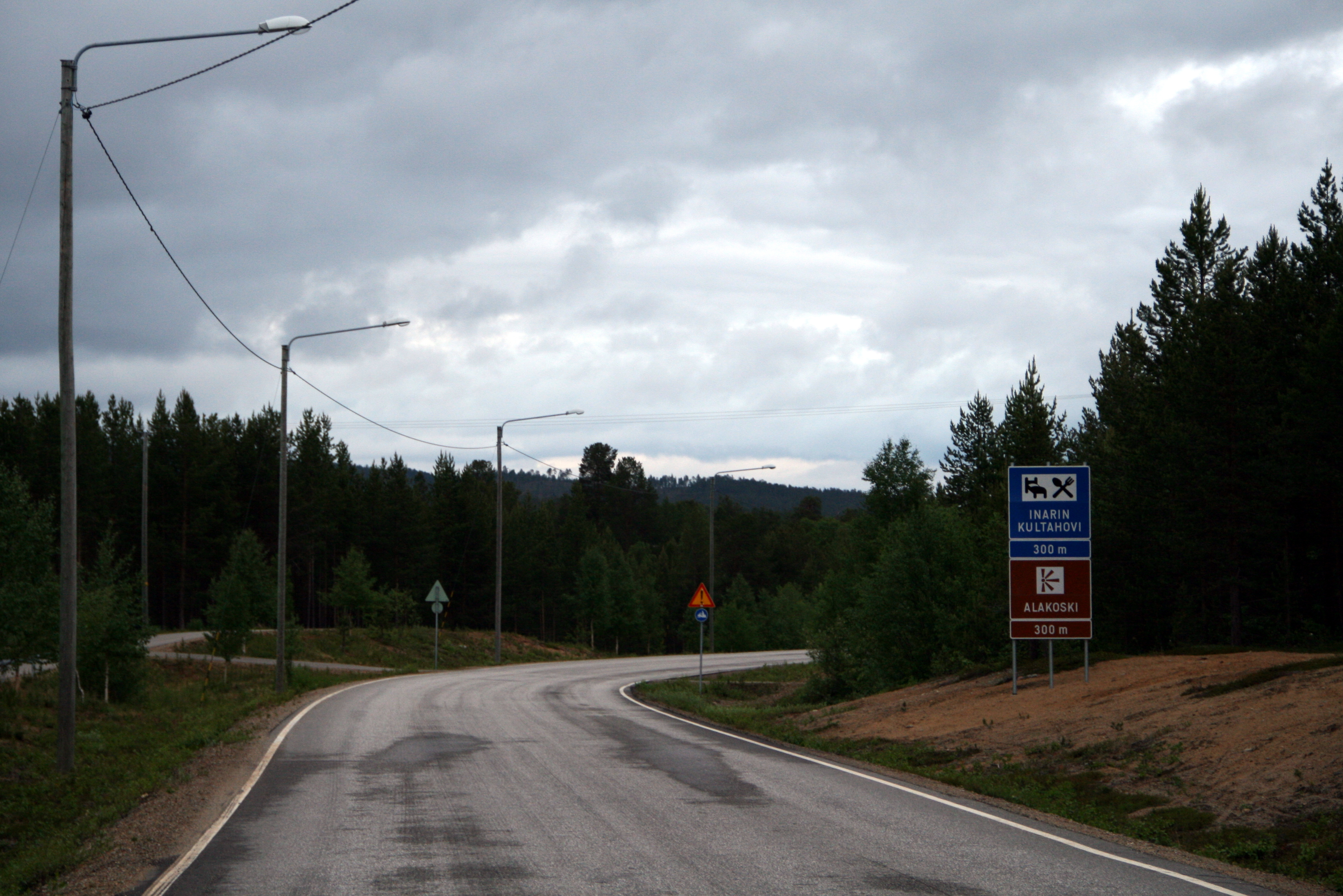 Regional road 955 in Inari, Finland